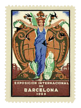 Spanish non-postal "cinderella" stamp, promoting the Barcelona International Exposition of 1929.